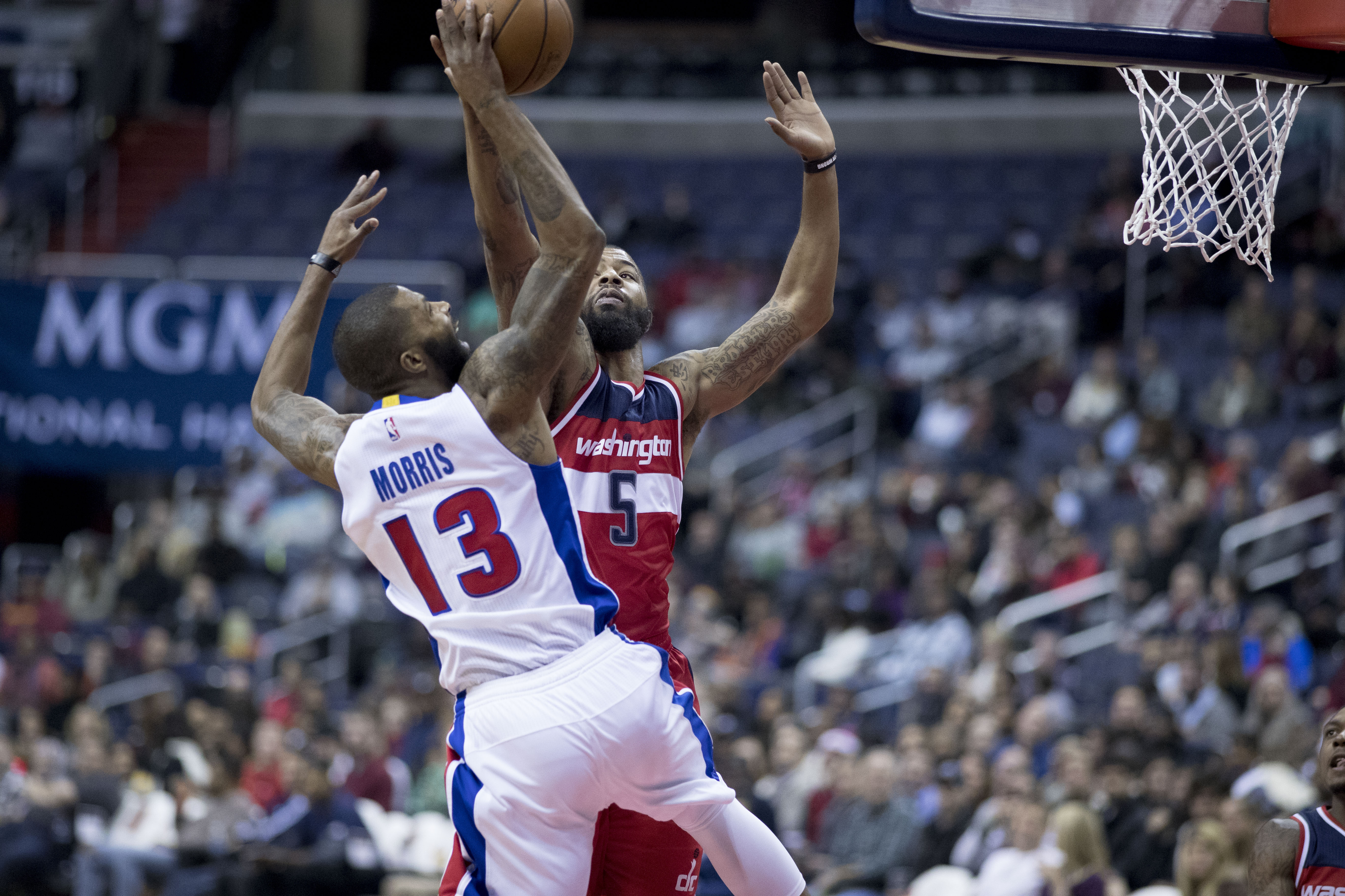 Pistons at Wizards 12/16/16